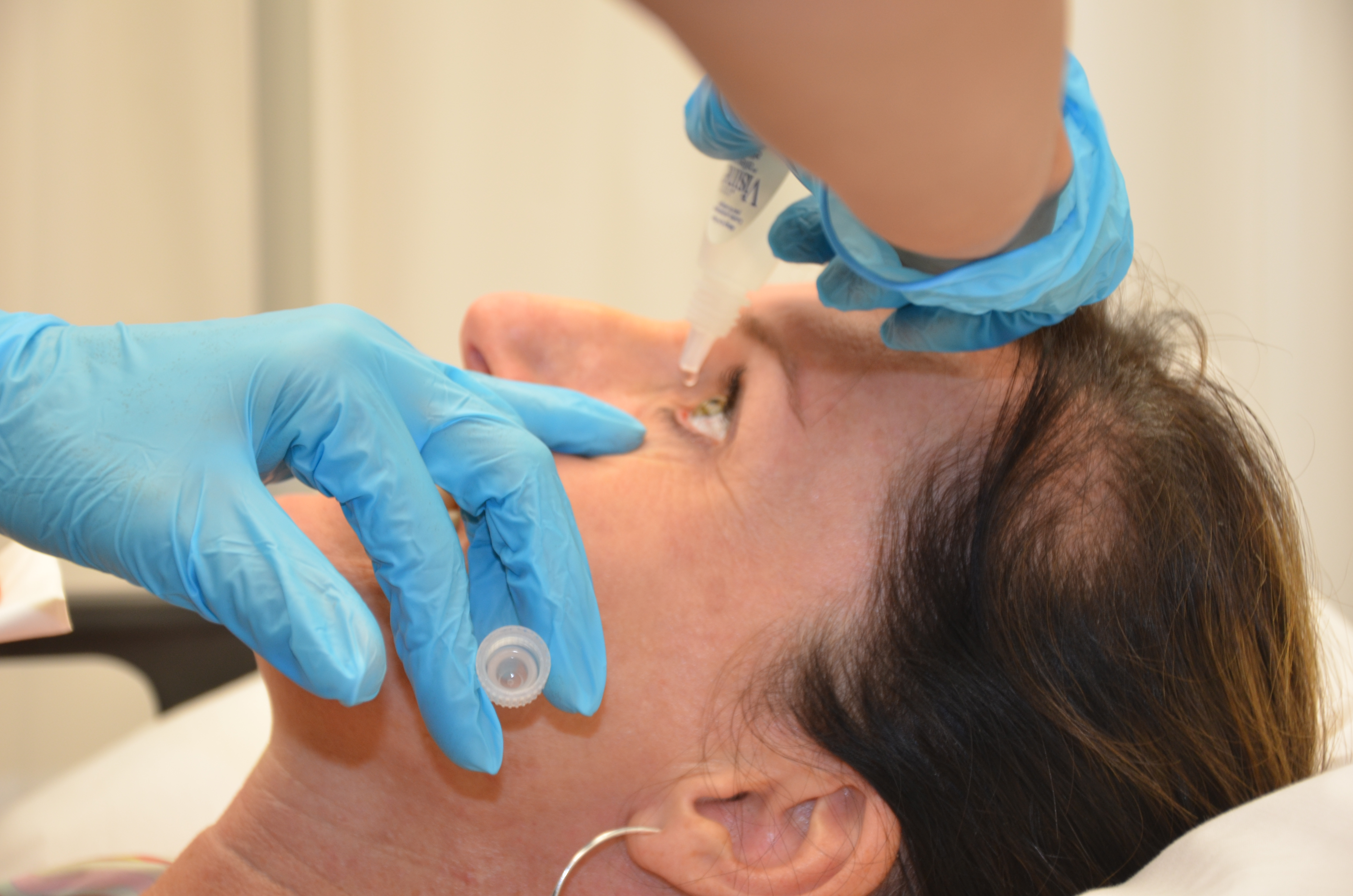 A medical professional applies eye drops to the eye.